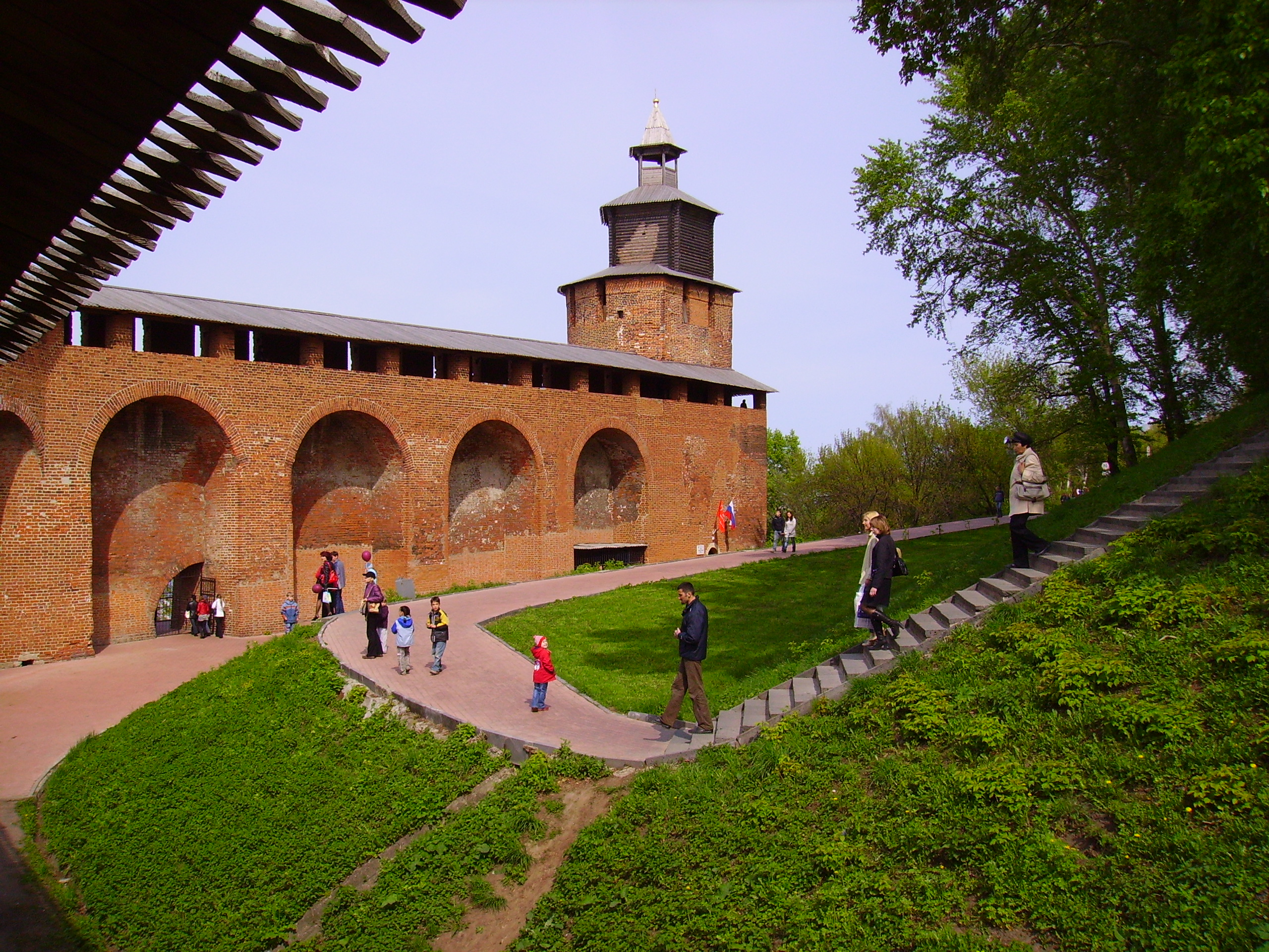 Clock (Chasovaya) Tower of Nizhny Novgorod Kremlin